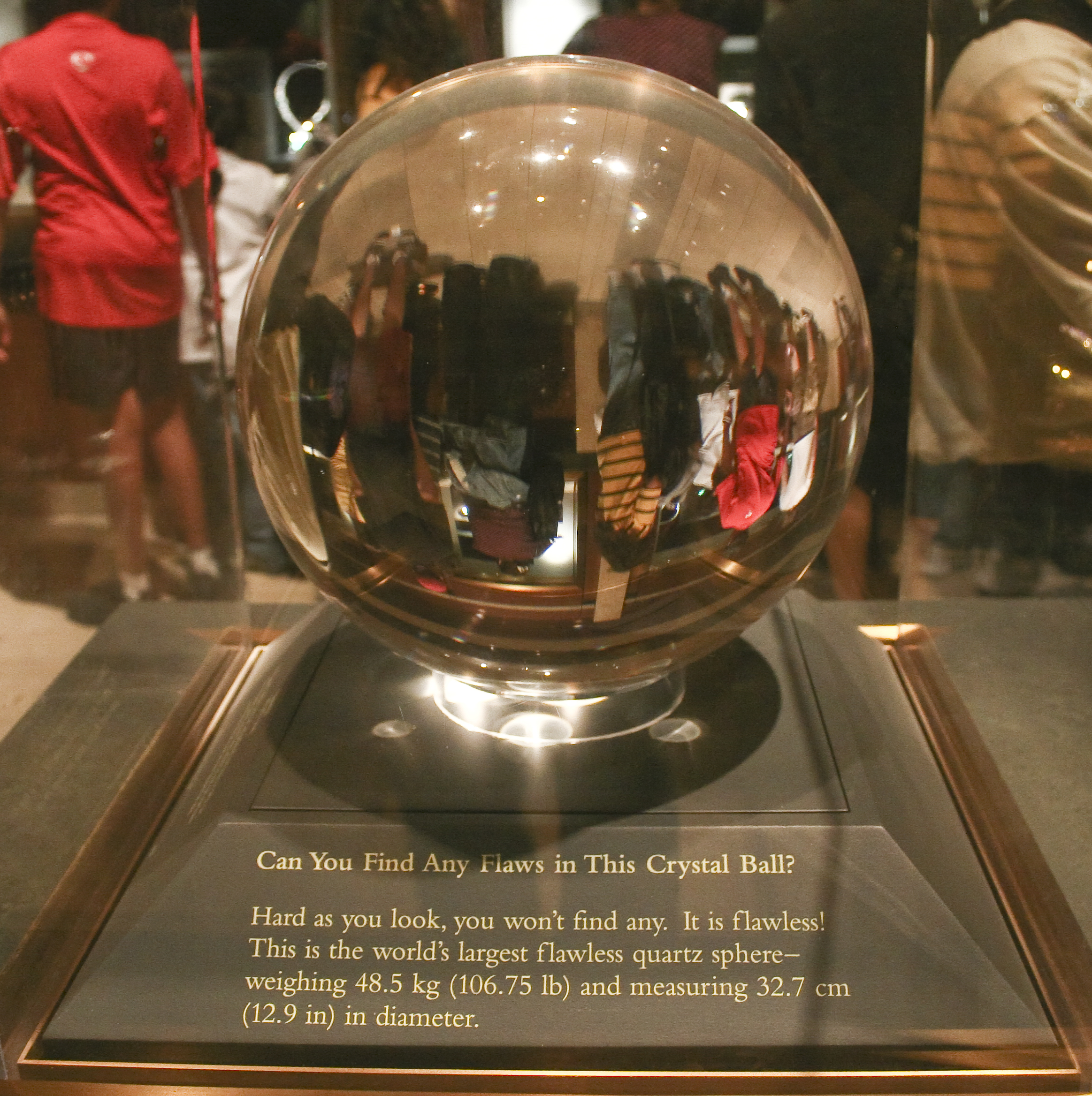 Largest flawless quartz sphere. Displayed at National Museum of Natural History, DC, USA. Weight = 48.5 Kg (106.75 lb) Diameter = 32.7 cm (12.9 in)